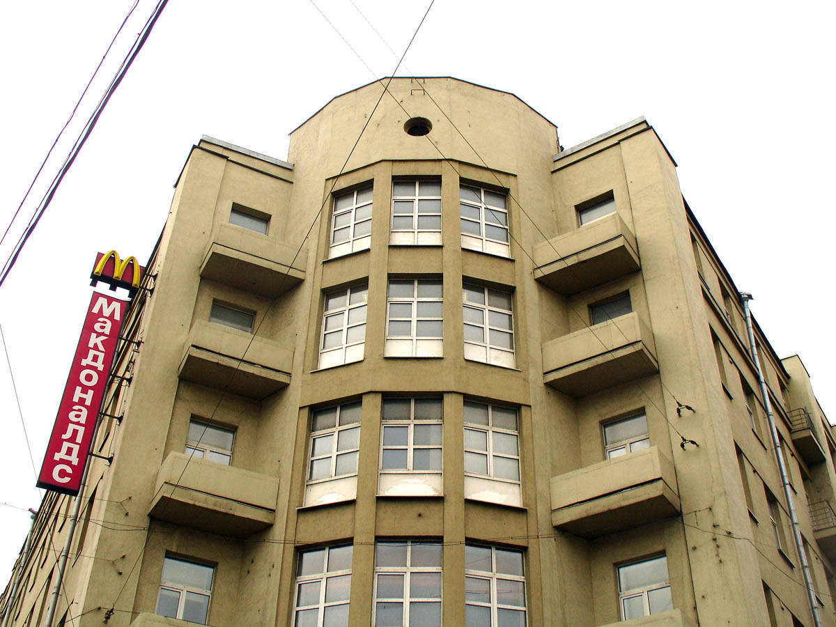 Arbat Street, Moscow